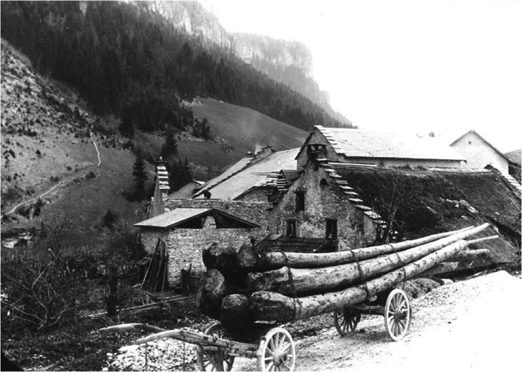 In the foreground on wood trailer on a dirt road. A hamlet which the greater part of the houses seem abandoned, along one side of the road.The first is a thatched cottage we can see gables as tiers covered with stone inclined. On the other roofs there is no thatch but most of these houses have gables as tiers with with stone inclined. We can see two “couves” on the gables, one of the gable belong to a ruin.